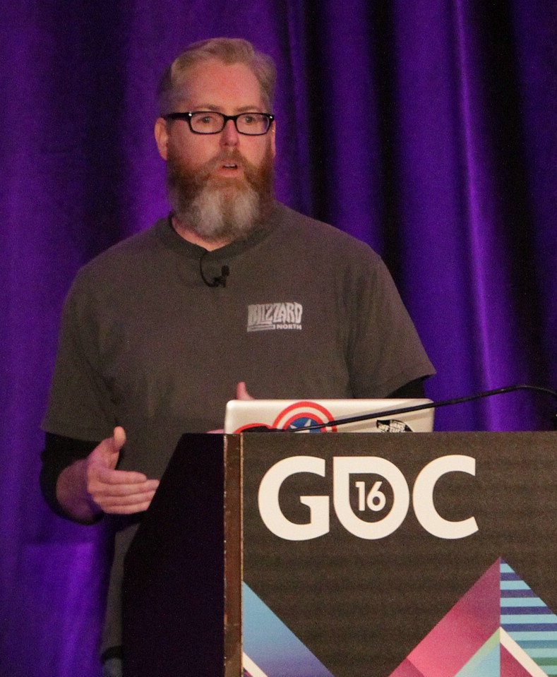 Classic Game Postmortem: Diablo David Brevik | CEO, Gazillion Entertainment Location: Room 134, North Hall Date: Friday, March 18 Time: 3:00pm - 4:00pm